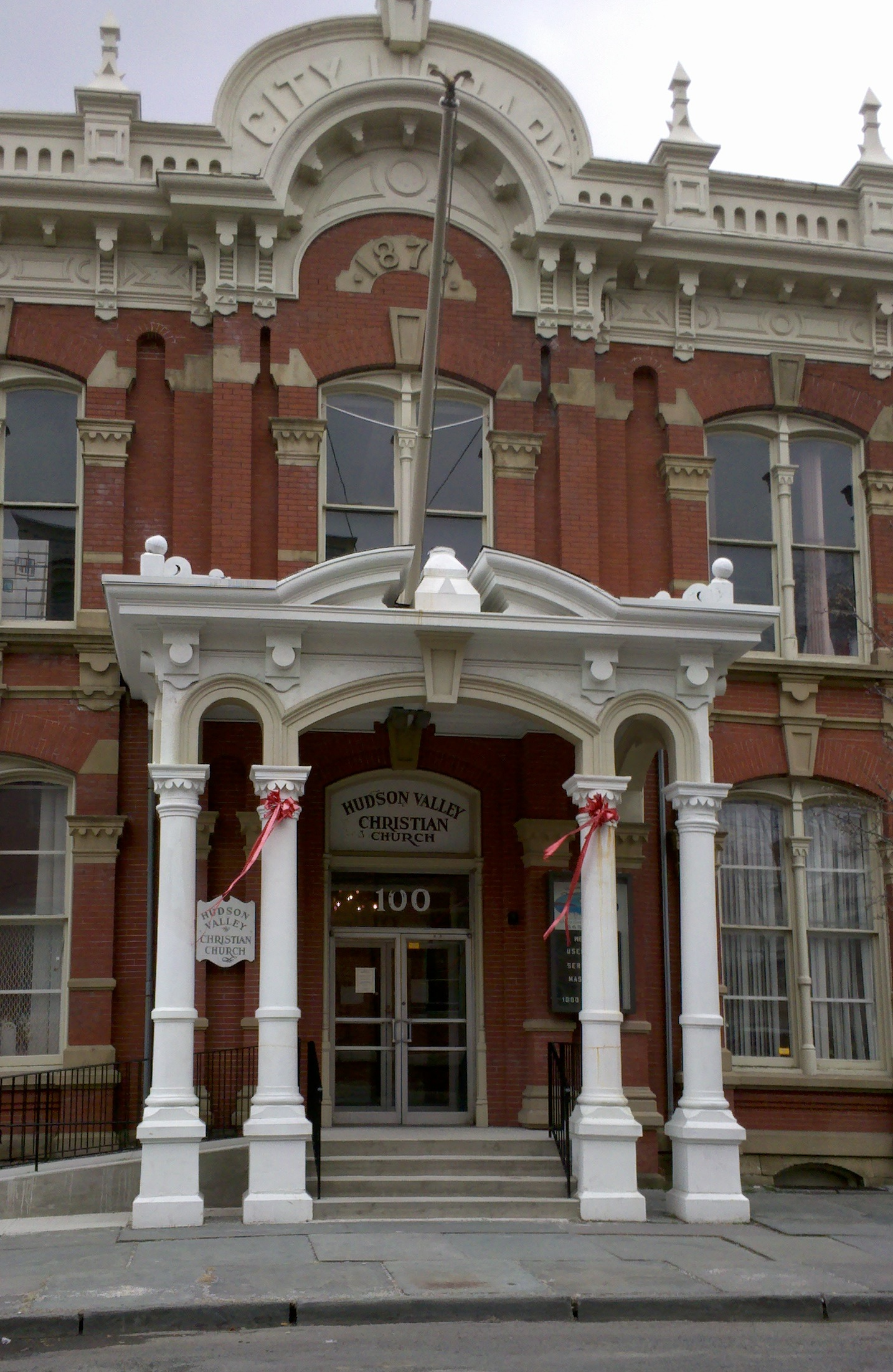 100 Grand Street, Newburgh, NY, former Newburgh Free Library building